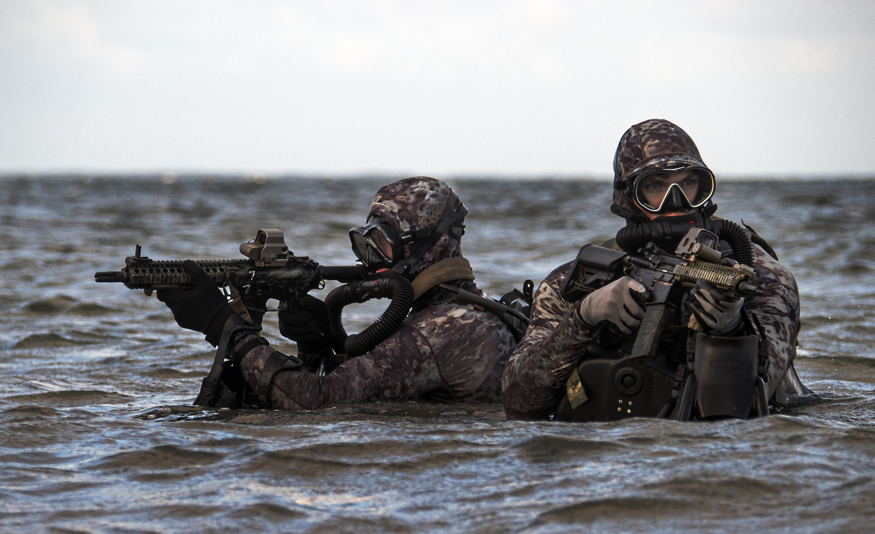 ATLANTIC OCEAN (May 29, 2019) Sailors assigned to Naval Special Warfare Group 2 conduct military dive operations off the East Coast of the United States. U.S. Navy SEALs engage in a continuous training cycle to improve and further specialize skills needed during deployments across the globe. SEALs are the maritime component of U.S. Special Forces and are trained to conduct missions from sea, air, and land. Naval Special Warfare (NSW) has more than 1,000 special operators and support personnel deployed to more than 35 countries, addressing security threats, assuring partners and strengthening alliances while supporting Joint and combined campaigns. (U.S. Navy photo by Senior Chief Mass Communication Specialist Jayme Pastoric/Released)190529-N-XD935-010